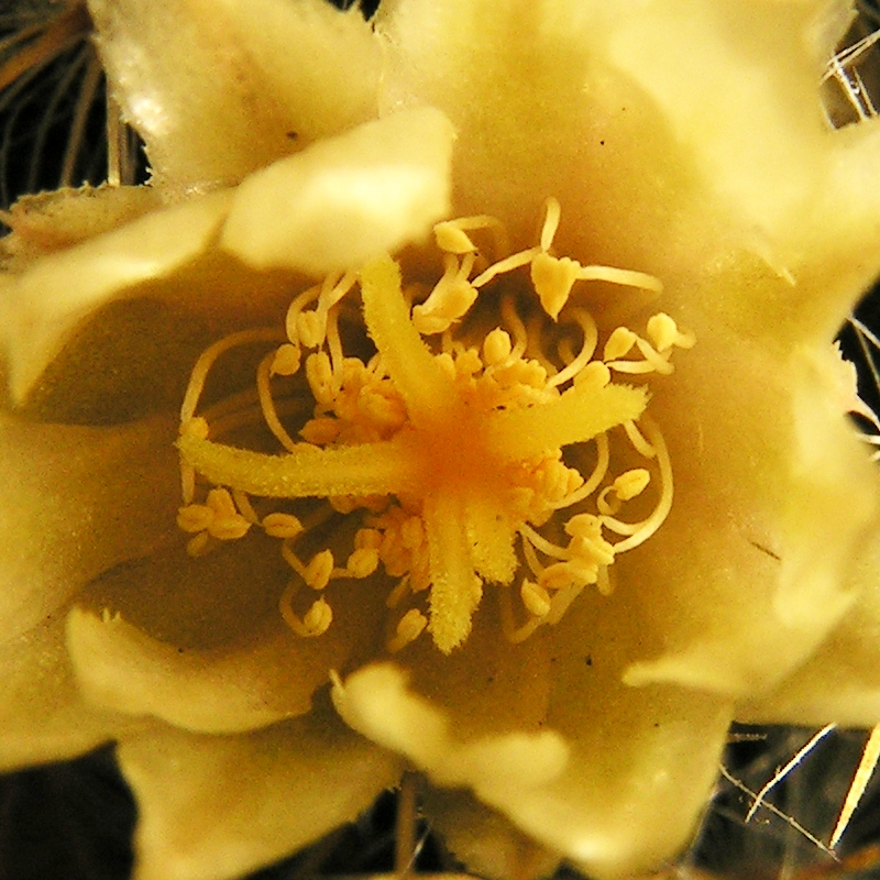 Mammillaria prolifera, the central part of the flower.